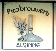 Sign outside of the premises of the Picobrouwerij Alvinne in Heule, Belgium. Taken on 11/15/07